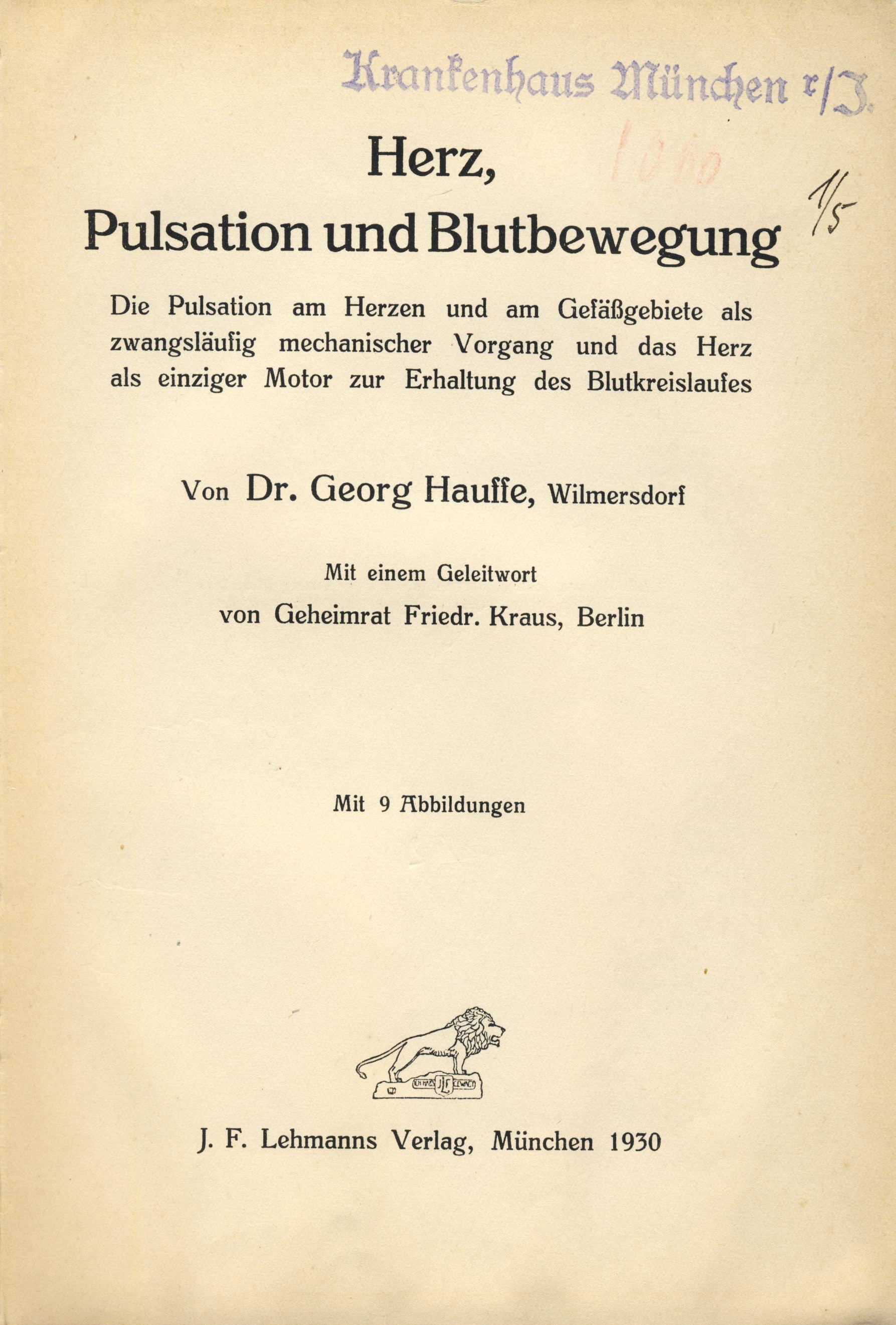 Georg Hauffe, Herz, Pulsation und Blutbewegung, Cover, 1930